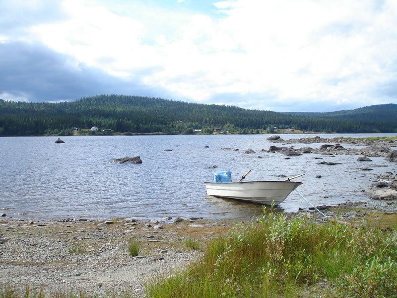 Lake Fjosoken viewed from Fårberg on the eastern side. On the other side is Fjällsjönäs.